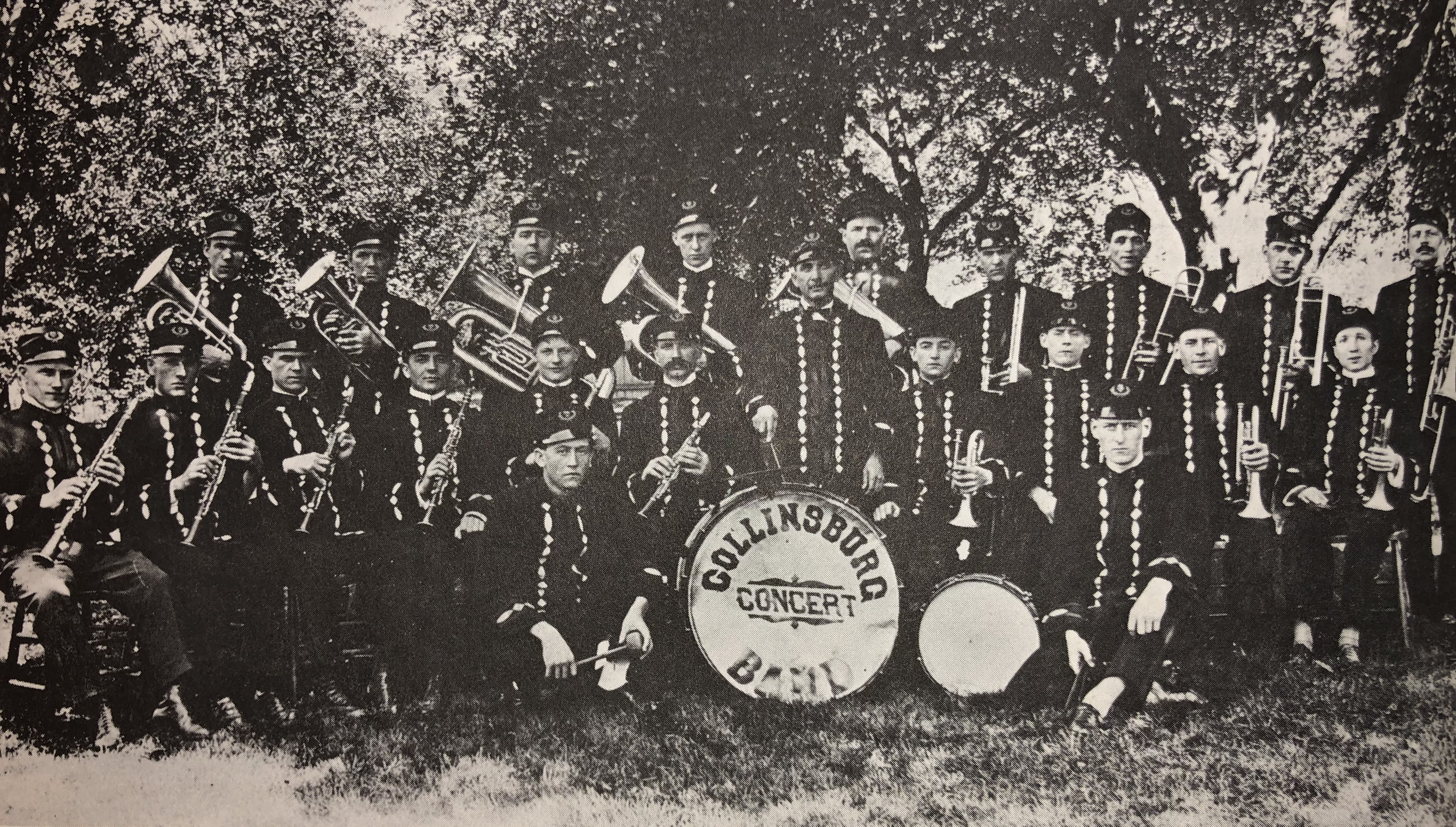 This photo shows the Collinsburg Pennsylvania Concert Band.